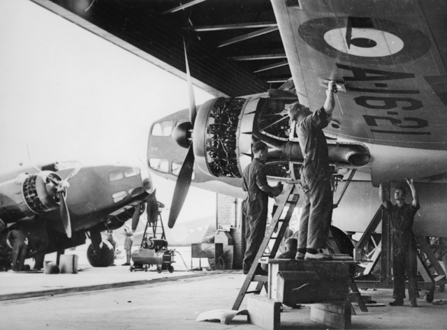 Assembly of Lockheed Hudson aircraft at RAAF Station Richmond being undertaken by members of No 2 Aircraft Depot (AD), after being received in component form from America. Hudsons were also assembled at No 1 AD at RAAF Station Laverton in Victoria. The rear fuselage of a Hudson, just visible in the far distance between the two foreground Hudsons, displays A16-1 on its tailplane. Its underside has been painted in Night Black, one of only 16 Hudsons so painted. A16-1 survived Malayan operations with No. 1 Squadron RAAF and was later operated by 1 Operational Training Unit (OTU). The Hudson in the left foreground also displays this undersurface finish, and could thus be either A16-2, -3 or -30. The Hudson aircraft in the right foreground, A16-21, carries a three digit constructor's number (272) on its nose, rather than the normal four digit version. A16-21 had been delivered on 9 February 1940 and was issued to 1 Squadron. Following the squadron's posting to Kota Bharu in Malaya, it was regularly flown by Flight Lieutenant John AH Lockwood who, late on the afternoon of 7 December 1941, reported sighting a Japanese cruiser and a motor ship 112 miles from Kota Bharu which had fired a broadside at his aircraft. The following morning, just after 2.00 a.m. with a full moon, Lockwood led the first attack on Japanese forces by Allied air forces, scoring direct hits on troop transports in the South China Sea. Later, on 14 February 1942, in the desperate defence of Palembang on Sumatra, Lockwood, leading an attack on the approaching Japanese convoy, was last seen 'losing height with smoke pouring from one engine, and two Zeros following it down in close pursuit', according to the only surviving witness, Flight Officer Peter J Gibbes.